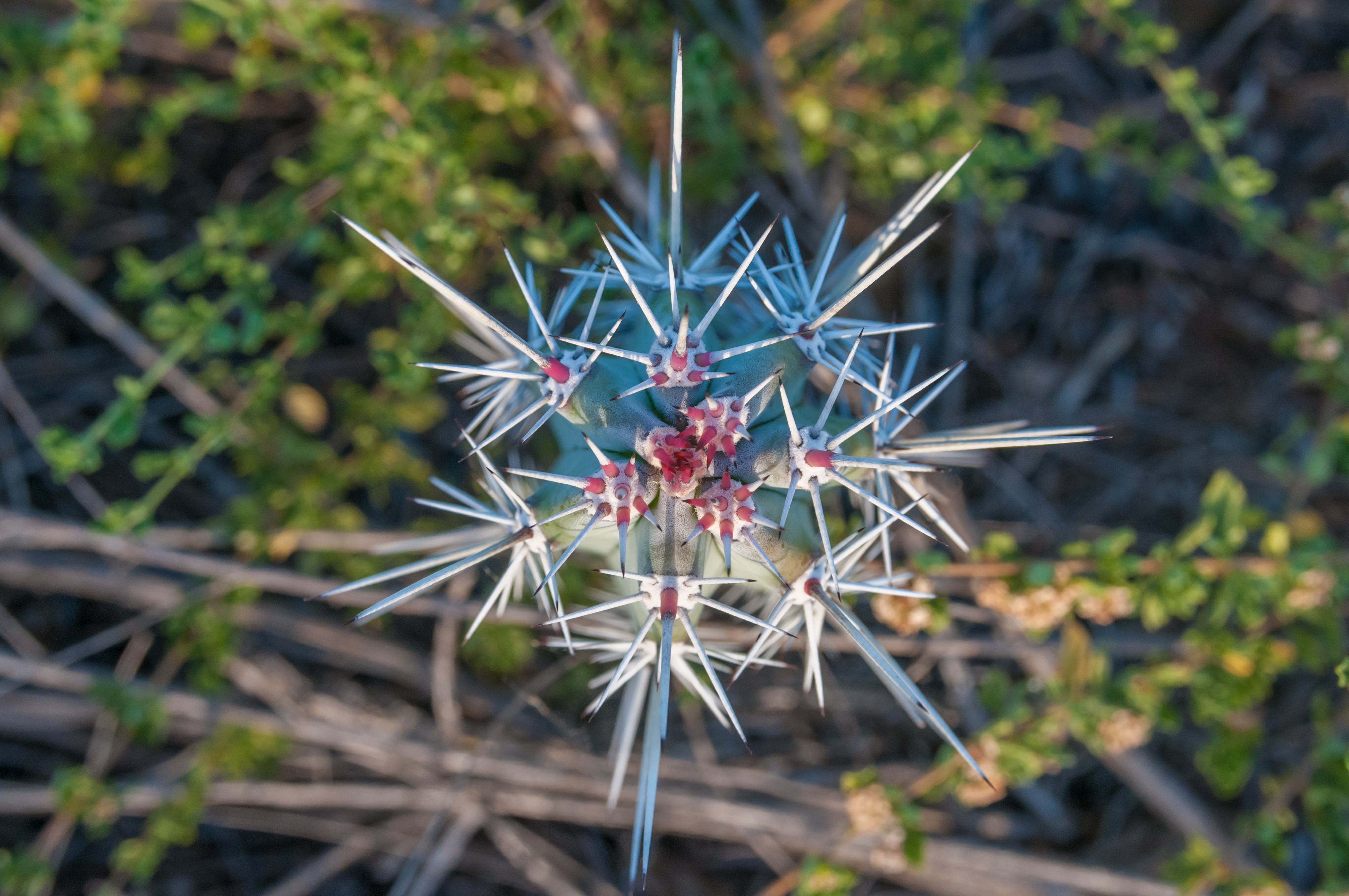 Cereus fricii top view found in Margarita Island